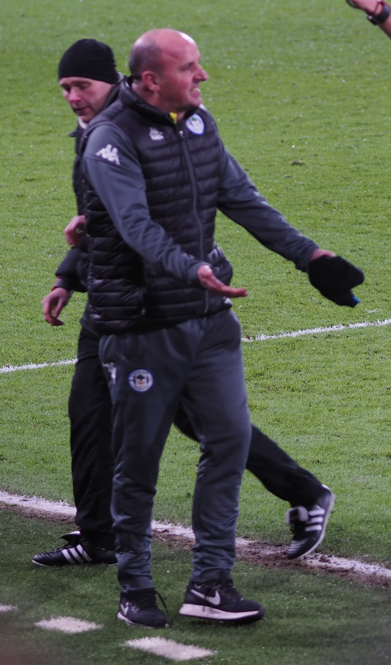 AFC Bournemouth - Wigan Athletic 2:2, Emirates FA Cupt Third Round, 6-Jan-2018, Vitality Stadium, Bournemouth